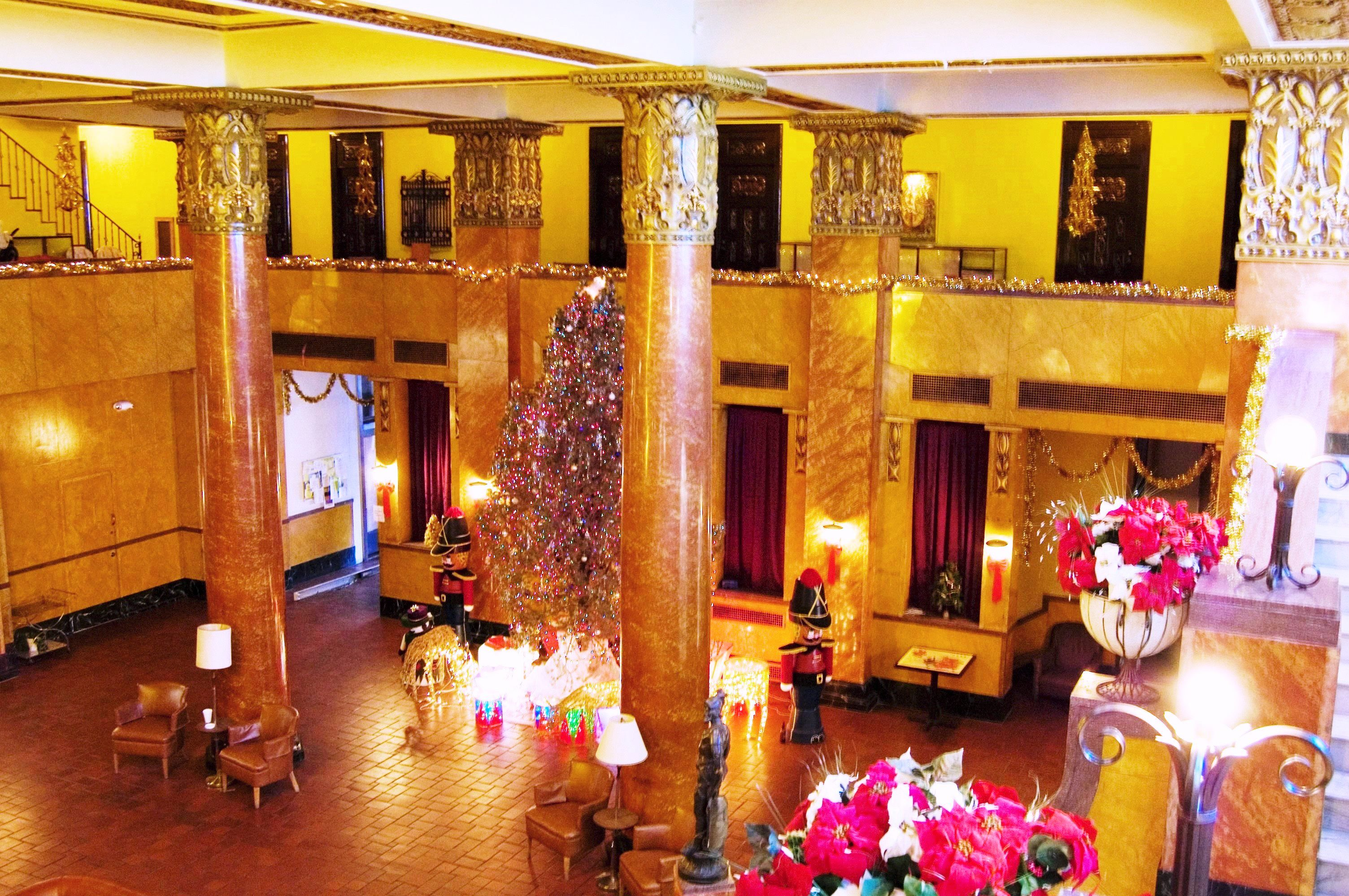 Lobby of Gadsden Hotel, in Douglas, Arizona. Uploaded on December 29, 2007 by jmuhles